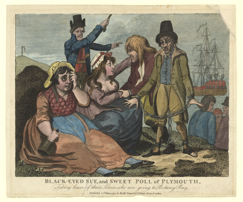 Black-eyed Sue and Sweet Poll of Plymouth taking leave of their lovers who are going to Botany Bay London : Published by Rbt. Sayer & Co., 1792.